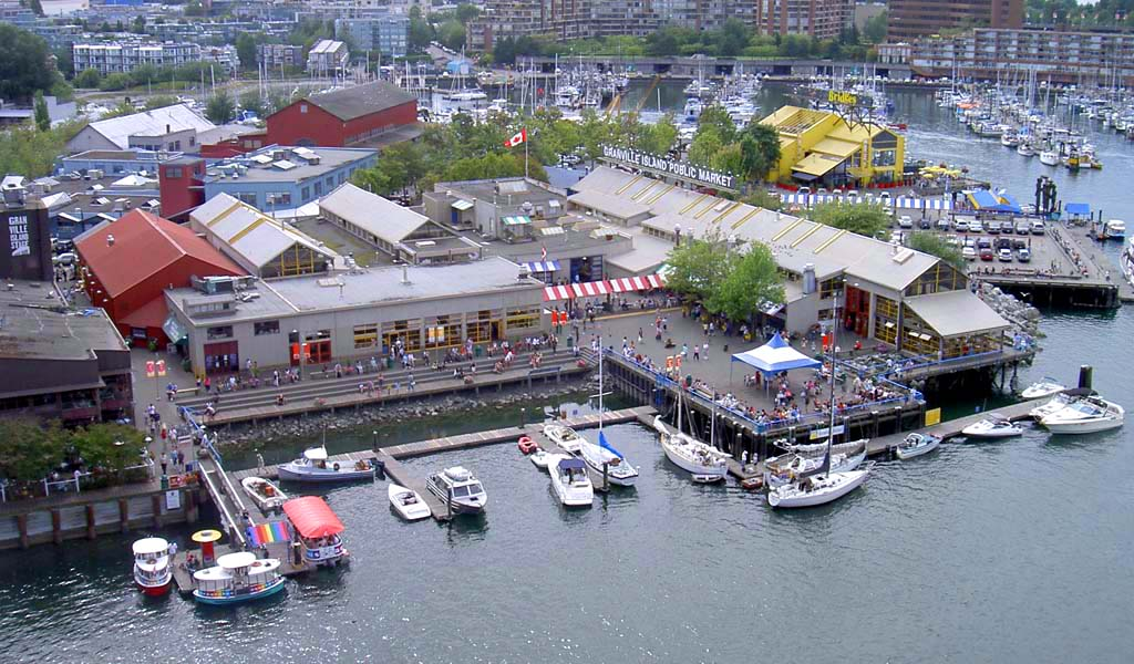 West side of Granville Island in Vancouver, including the Granville Island Public Market.